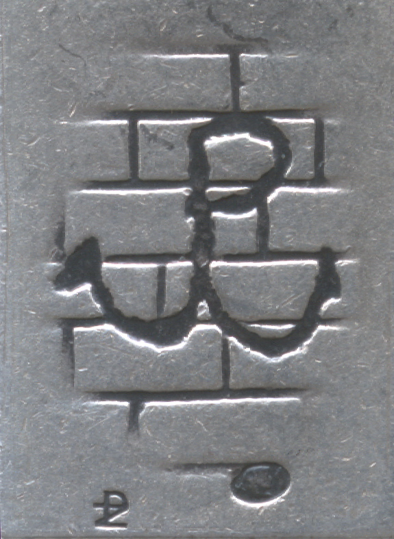 Scan of a silver medalion with Madonna, Jesus and Armia Krajowa emblem (reverse).